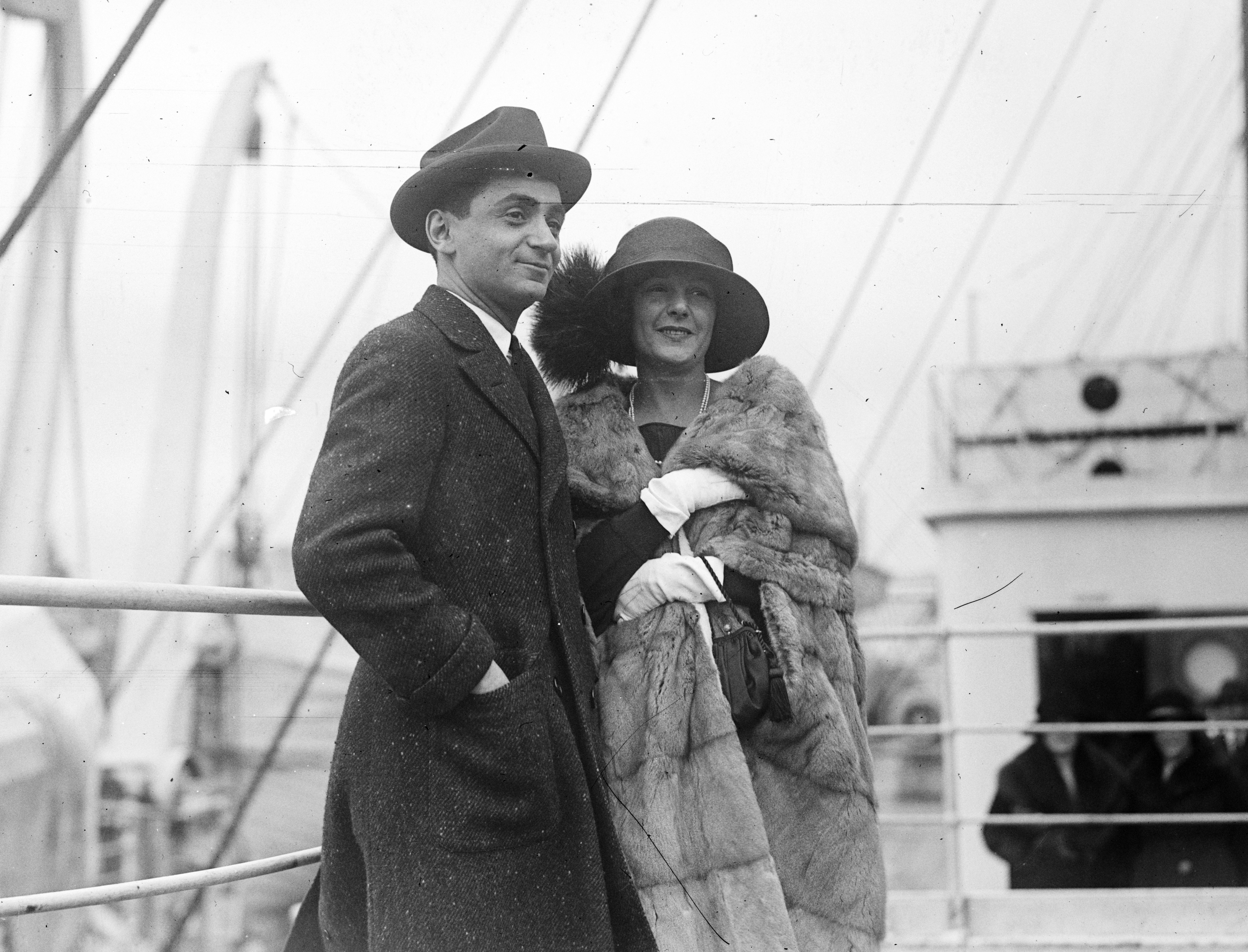 Irving Berlin and first wife Dorothy Goetz. Original caption: "Irving Berlin and Wife who died"